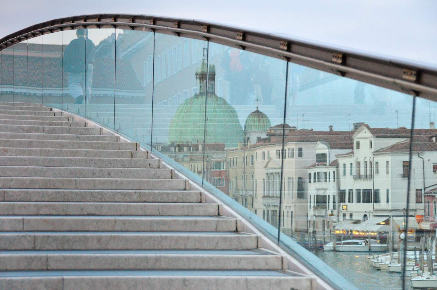 To see more Welcome. You are free to use all my photos for free. My photos are licensed under Creative Commons Attribution United States License for your legal protection. So you are FREE (as for beer) to copy, distribute, display, perform the work, and to make derivative works, including for commercial use. You may use any of my photos to repost in the Internet, make calendars or any other object, use it in other media production, print them for sale, etc... You do not need special permissions, because all possible permissions you might ever need are hereby granted. If you want to give credit, just give it to mike gnuckx. Enjoy. :-) night sunset dawn sea sicilia sicily sea bay summer roma rome beach travel vacation italia italy travel creative commons cc gnuckx nikon dolce gabbana etna free blog blogs blogger bloggers tumblr flikr venezia carnevale panoramio